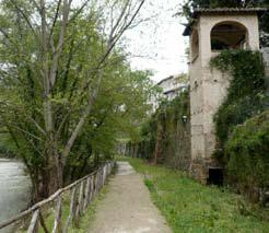 River Vomano and an ancient tower on the right of the picture.